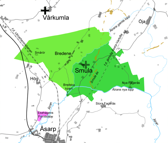 Map of Smula parish in Redväg hundred, Falköping municipality, Västergötland, Sweden. Scale 1:40,000. The area of Smula parish is marked green. The lighter western half of the parish did earlier belong to Frökind hundred. The church of Vårkumla are marked with a black cross. The church ruin of Smula i marked with a grey cross. The Prehistoric village Ekehagen is marked magenta.